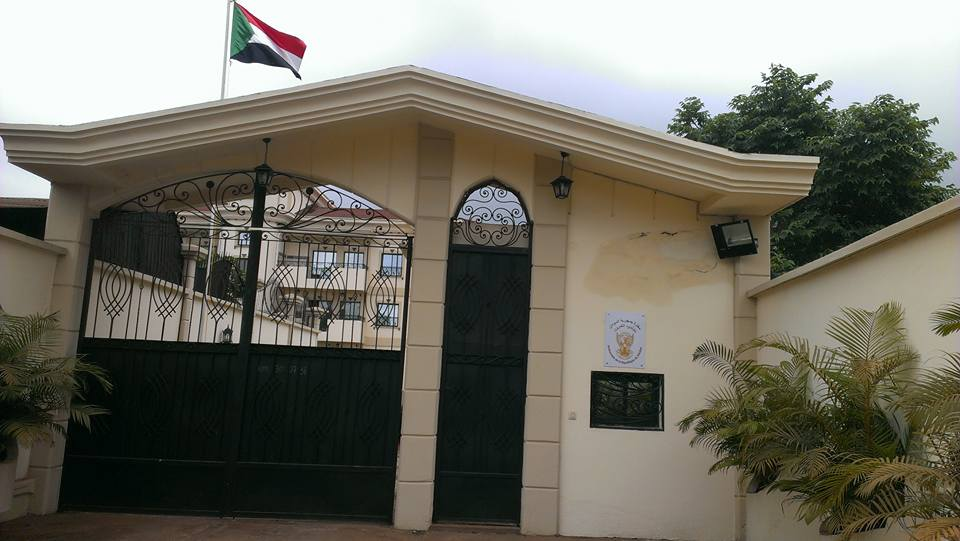 Embassy of the Republic of Sudan in Yaounde, Cameroon